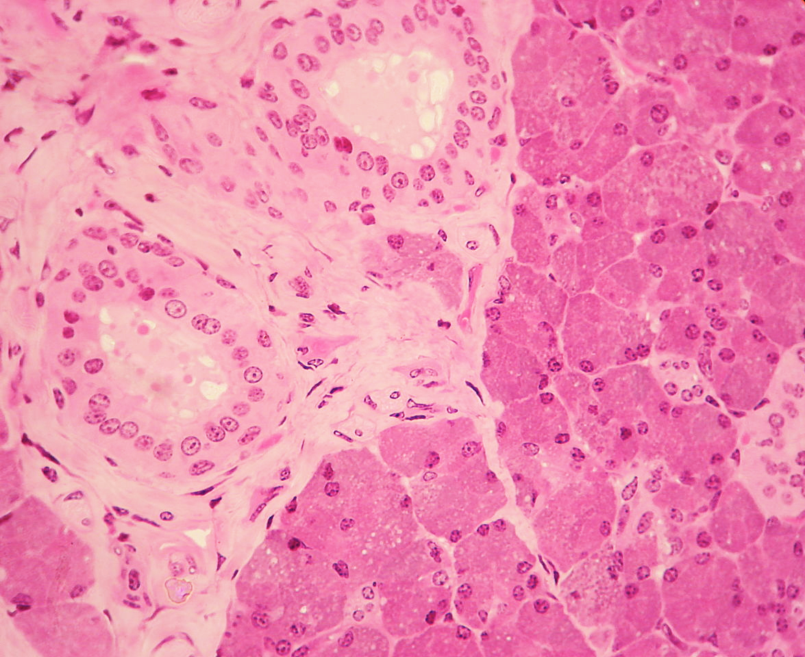 Stratified cuboidal/columnar epithelium is visible in a duct surrounded by connective tissue in the parotid gland